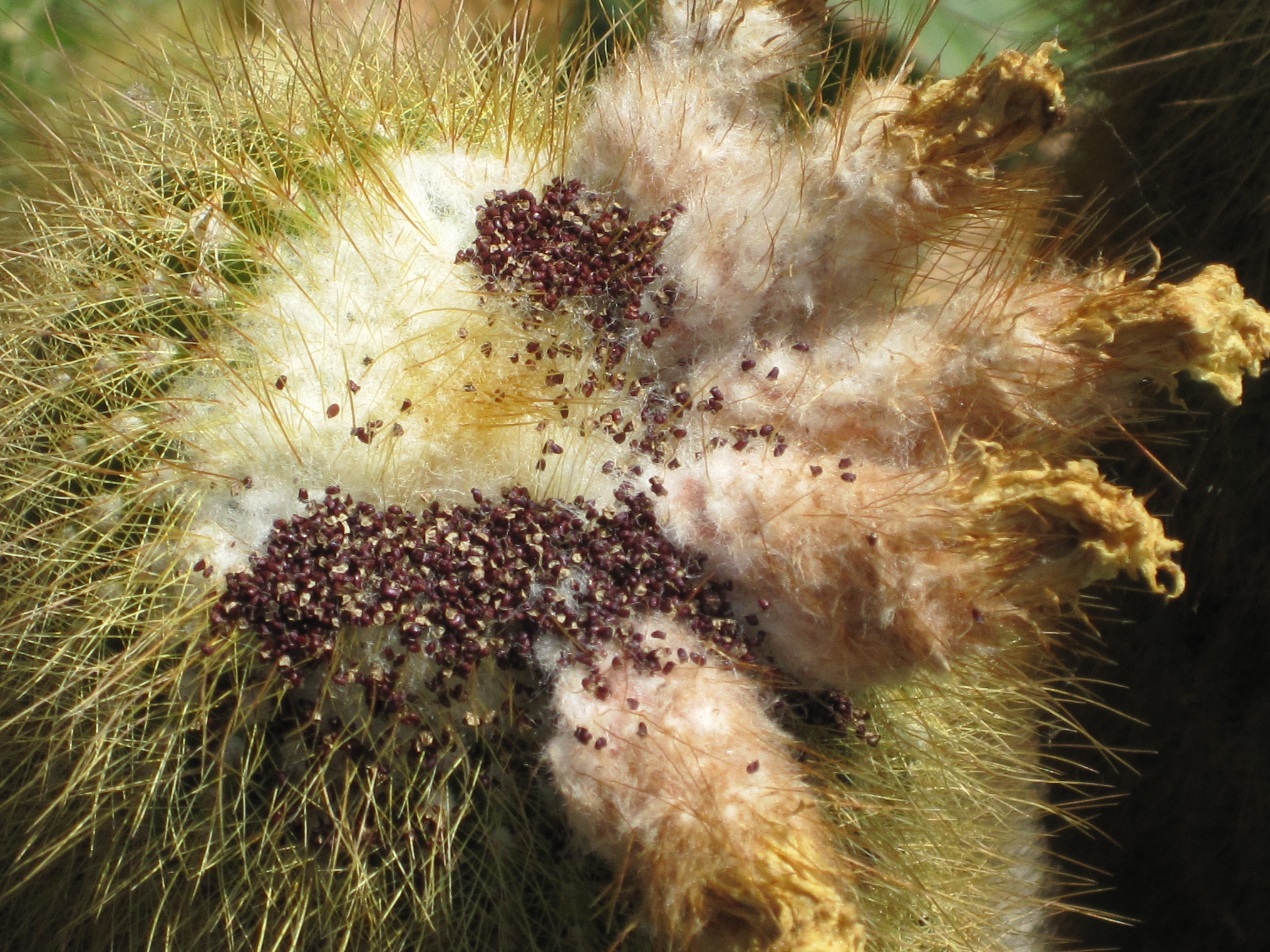 The many seeds of parodia leninghausii